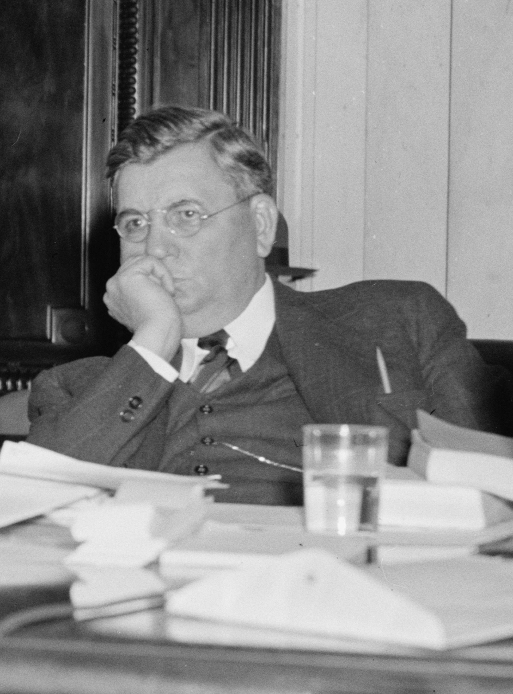 Thomas A. Jenkins, congressman from Ohio, seen cropped from a photo of a TVA committee hearing, 1938-11-23 at Washington, D.C..